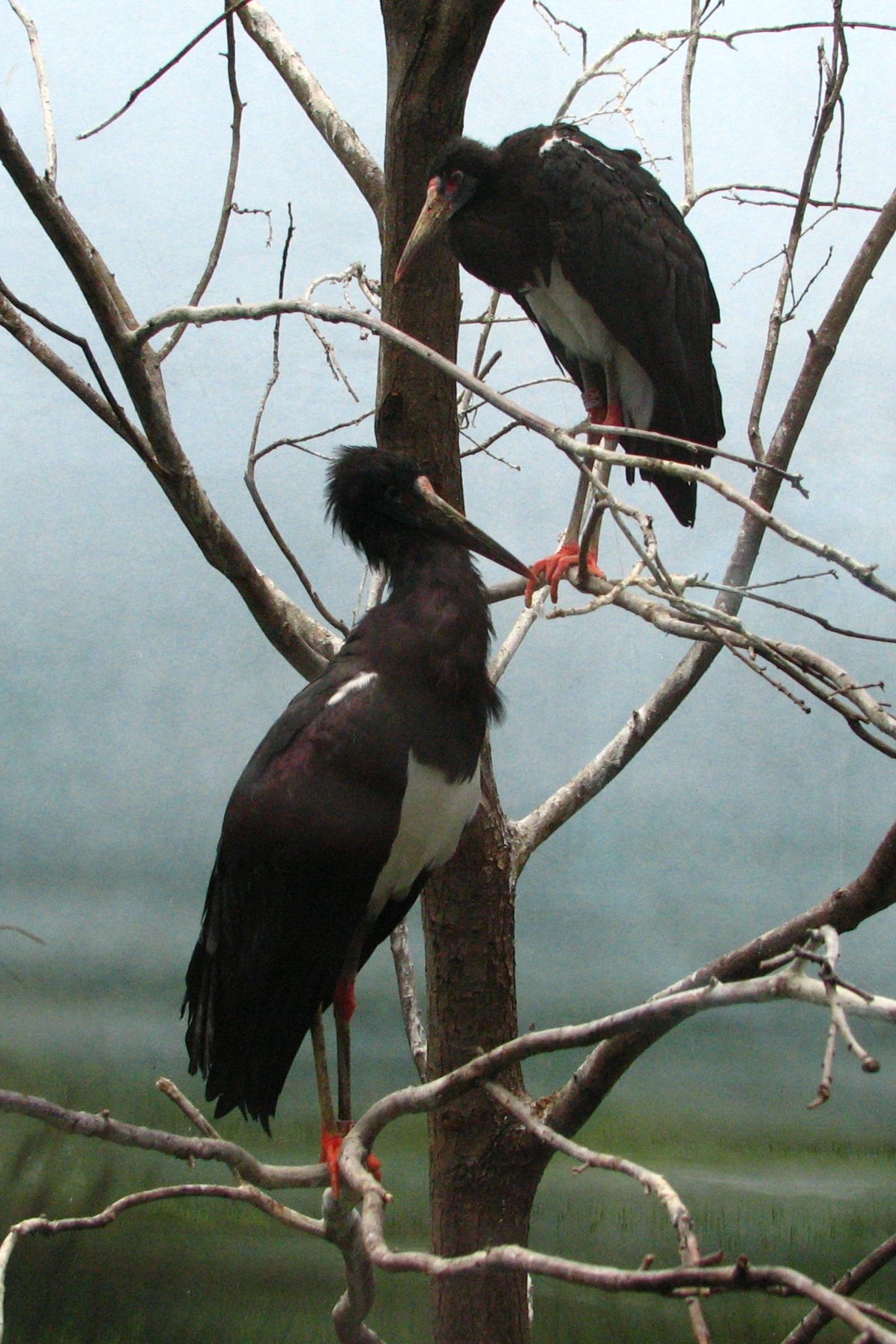 Abdim's Stork in ZOO Dvůr Králové, Czech Republic